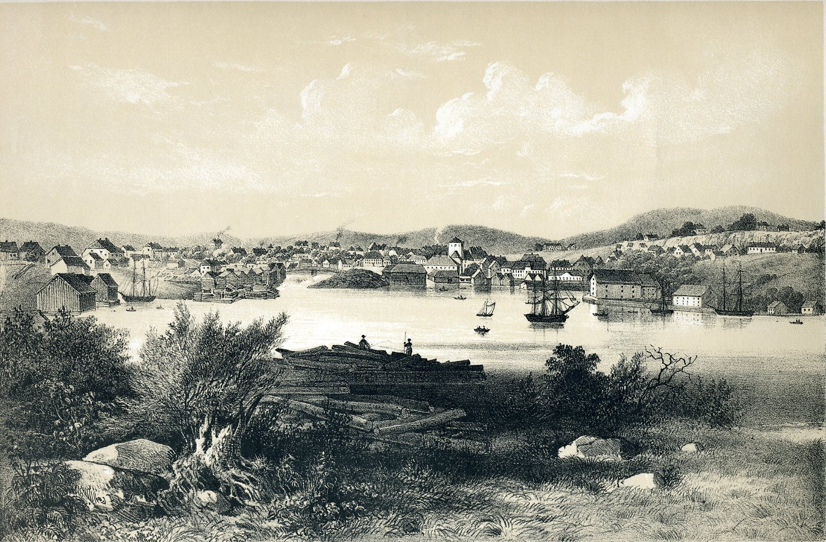 Pictures from the Work "Norge fremstillet i billeder" 1848 by Chr. Tønsberg. Skien, Skien municipality, Telemark county, Norway.